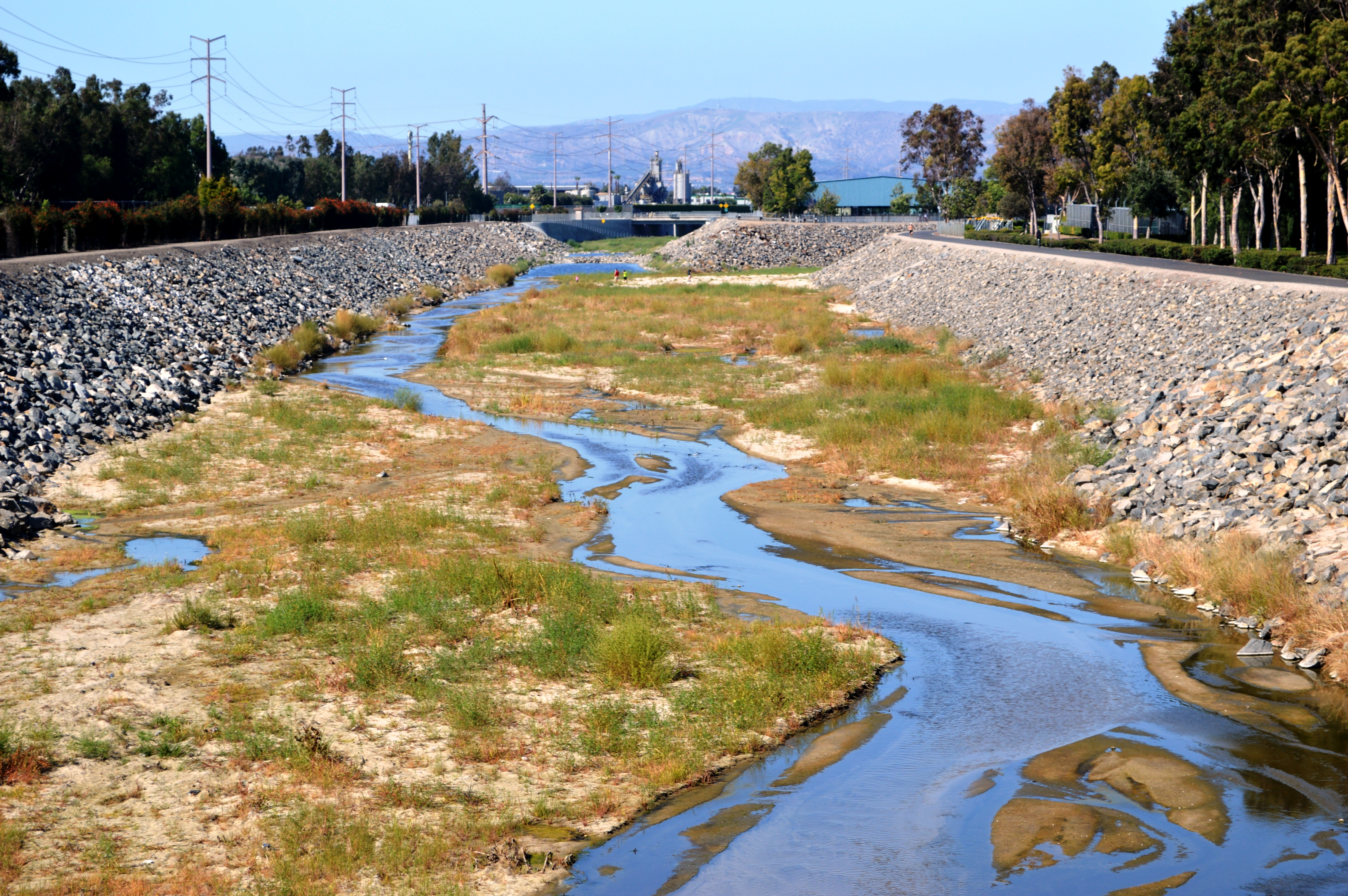 San Diego Creek as seen from the Alton Parkway bridge, next to the Irvine Civic Center. If you zoom in, you can see the Barranca Parkway bridge over just above the confluence, with the Santa Ana Mountains in the background.